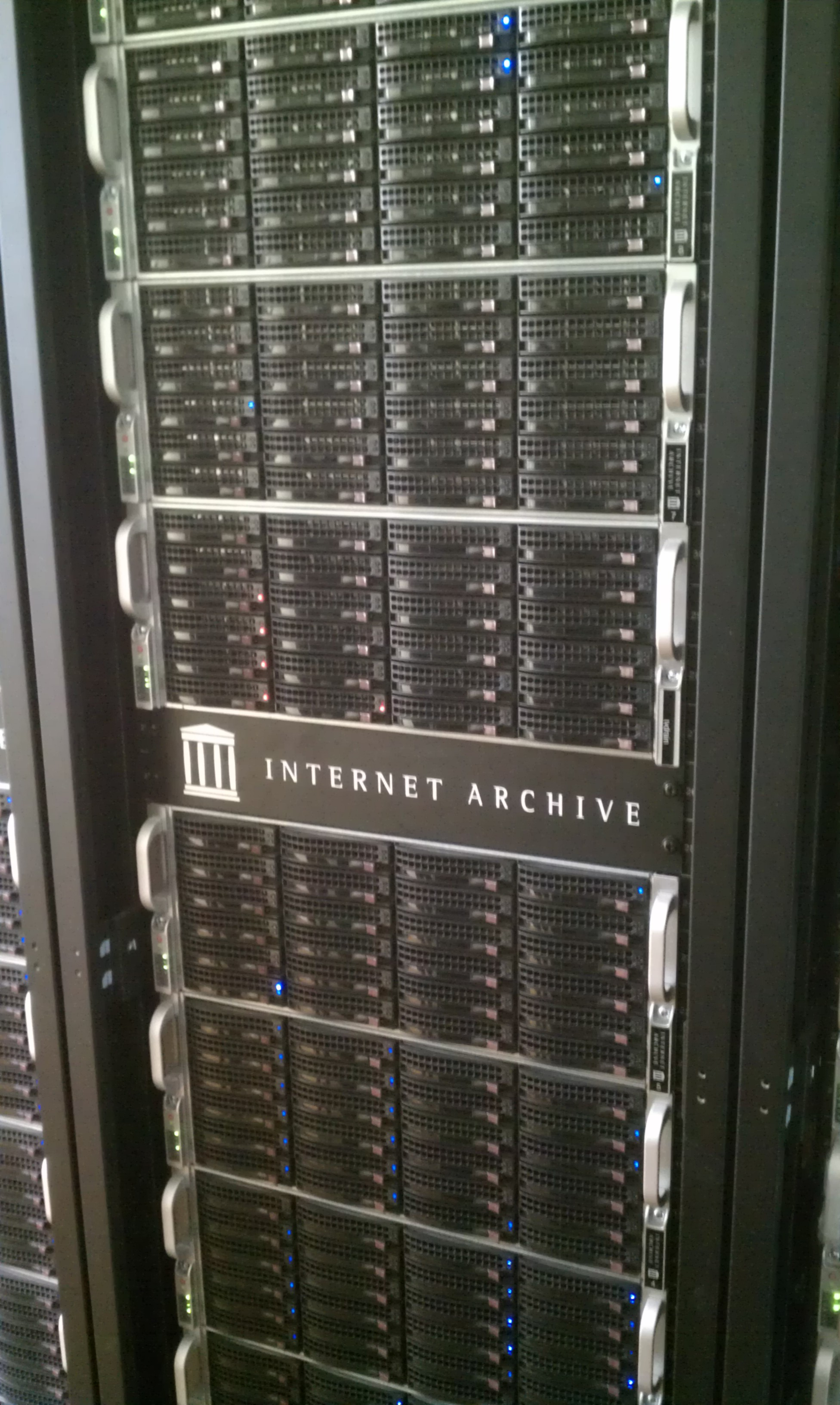 A rack of servers hosted at the Internet Archive's San Francisco headquarters.